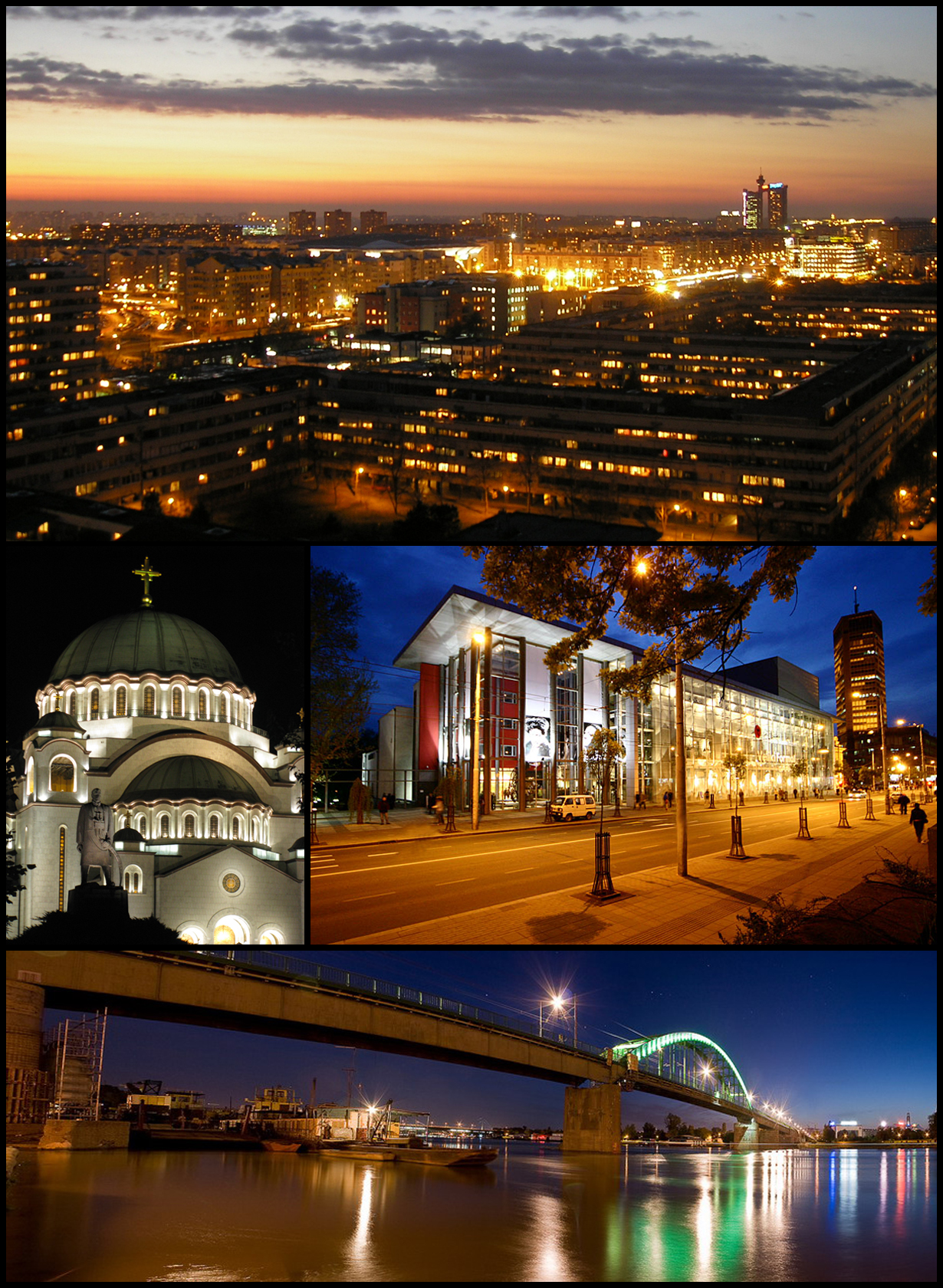 From upper left: West of Novi Beograd with Genex Tower, the Cathedral of Saint Sava with Karađorđe monument in front, Yugoslav Drama Theatre with Beograđanka on the right, and the Sava bridge.